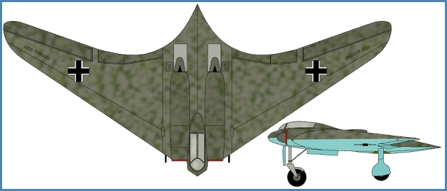 Ho 229 V3